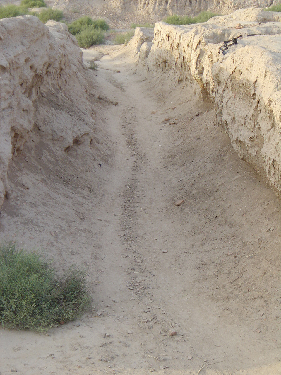 The passage to the graveyard found in Kalibanga.